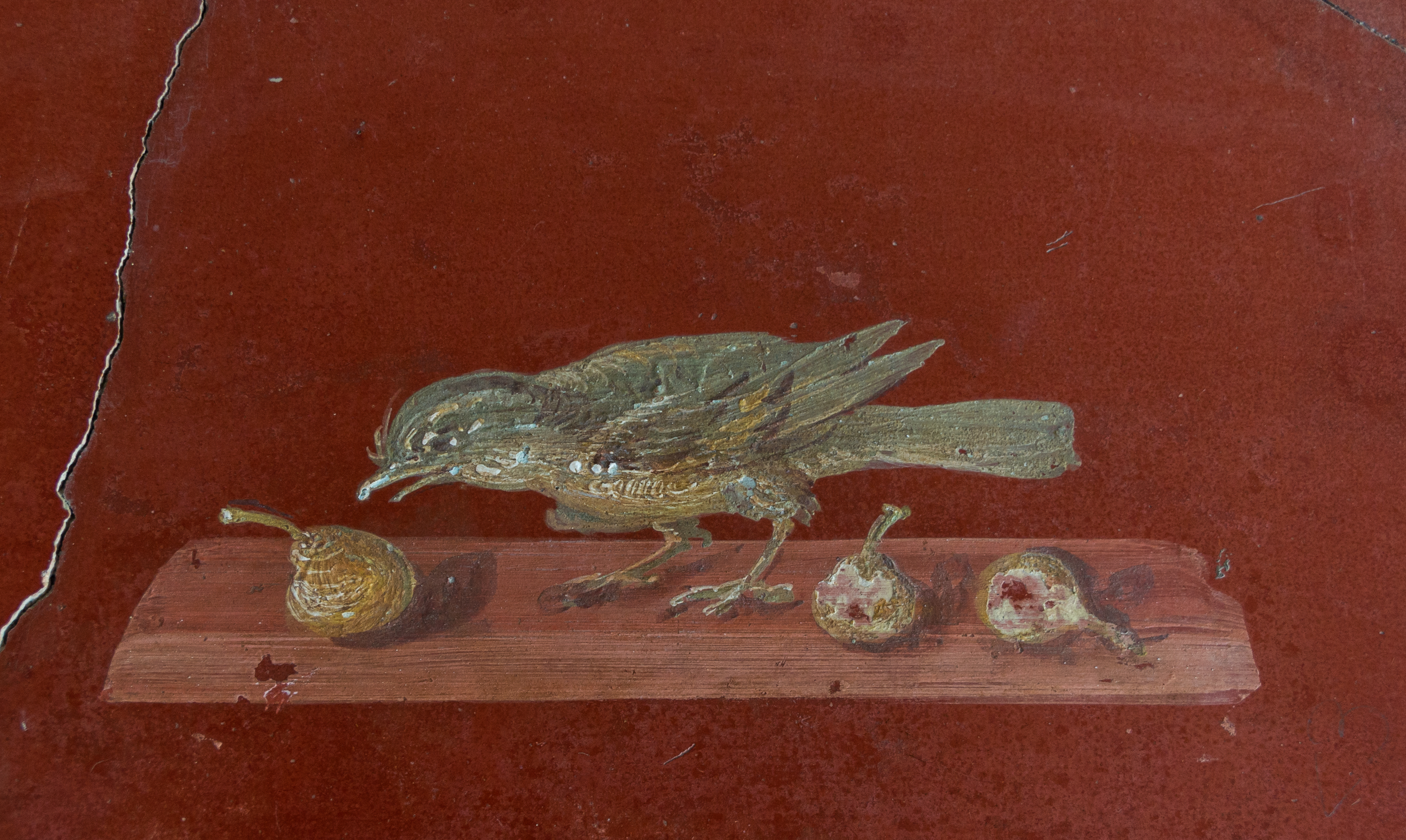 Fresco in situ and life size of a bird eating figs, Villa Poppaea, Oplontis, Italy.